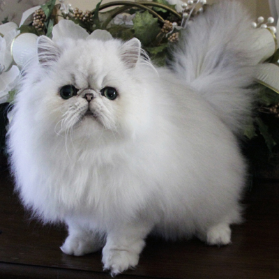 Modern Day Shaded Silver Persian Cat